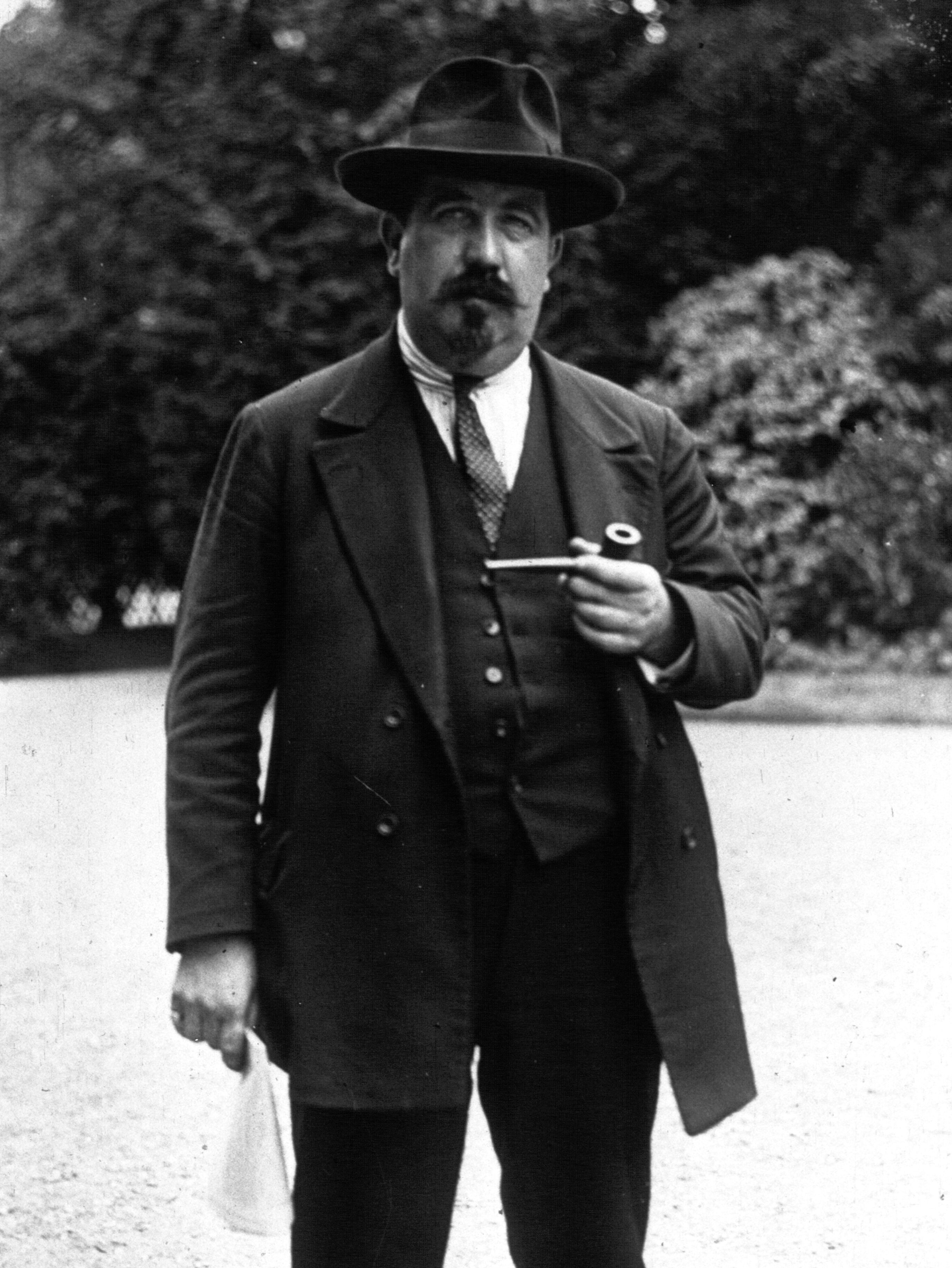 French trade unionist and Nobel laureate Léon Jouhaux (1879-1954).